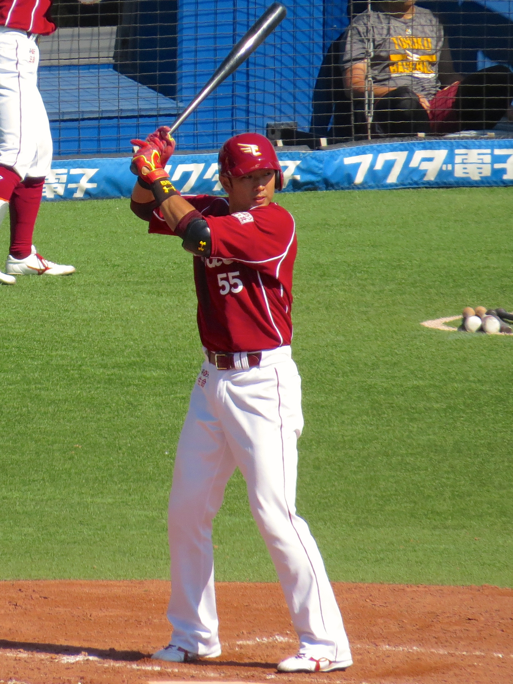 Tetsuro Nishida, infielder of the Tohoku Rakuten Golden Eagles, at Chiba Marine Stadium.